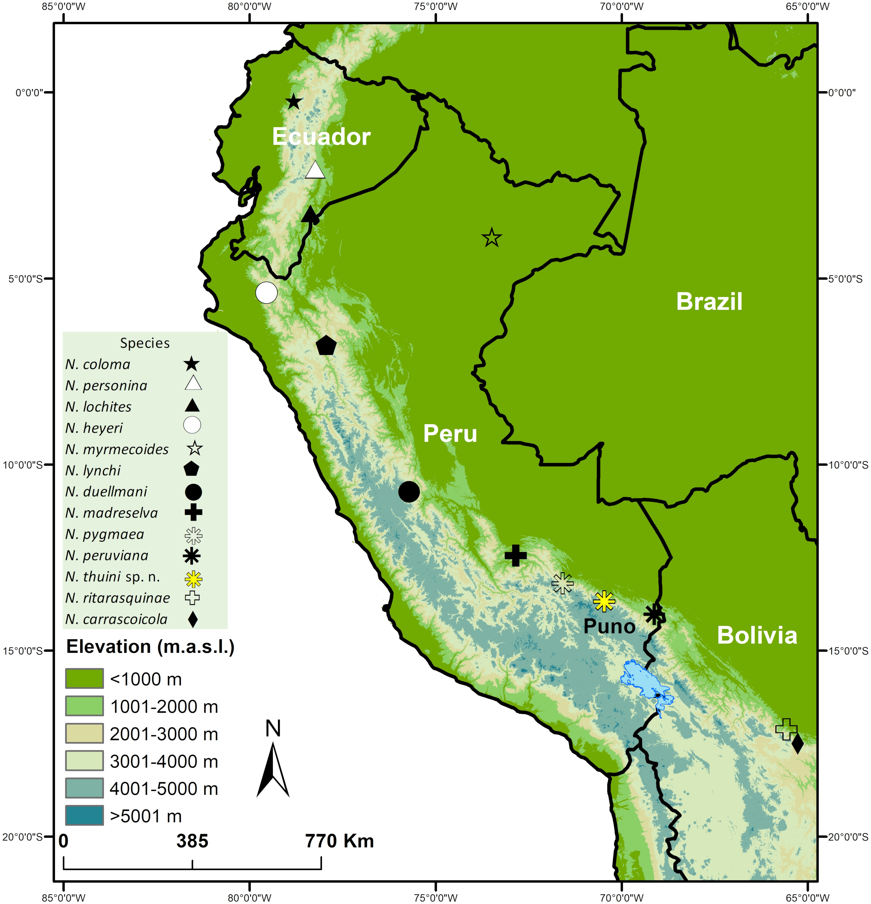 Type localities of N. coloma, N. lochites and N. personina in Ecuador, N. duellmani, N. heyeri, N. lynchi, N. madreselva, N. myrmecoides, N. peruviana, N. pygmaea and N. thiuni sp. n. in Peru, and N. carrascoicola and N. ritarasquinae in Bolivia.